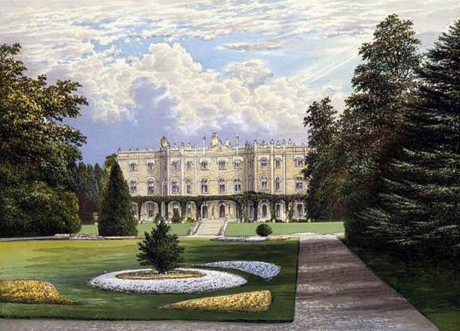 Hughenden Manor in Buckinghamshire, England from Morris's Country Seats (1880).